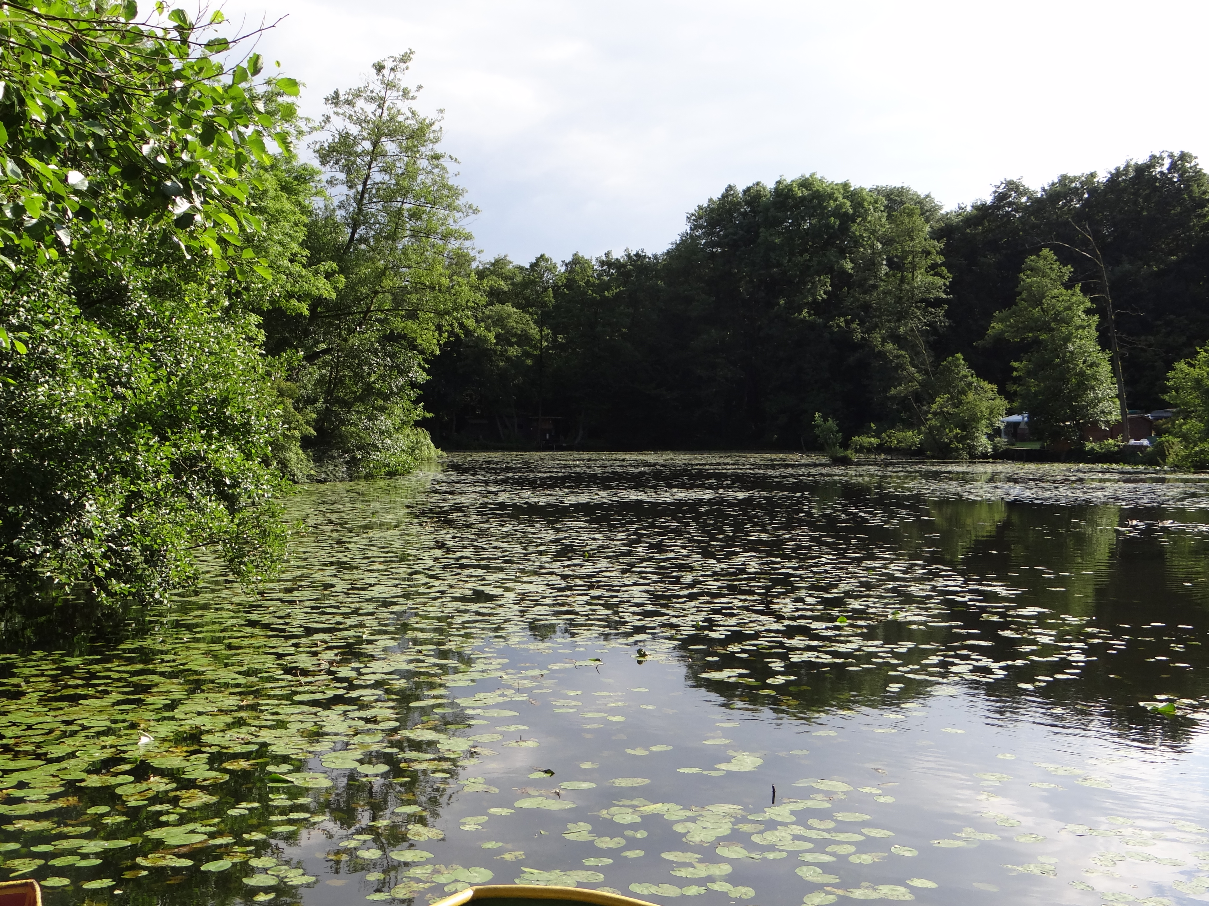 The Littardkuhlen, a long lake around the Littard forrest near Rheurdt, Germany. The lake is the result of peat cutting in the 19th century and before.